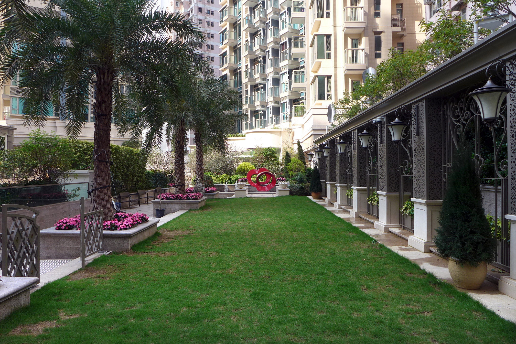 Lee Tung Avenue Level 5 Public Open Space Lawn